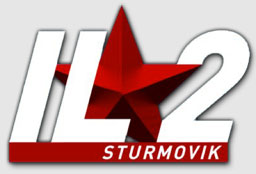 This is the original logo of the IL-2 Sturmovik series of combat flight simulation video games. It was designed by 1C Maddox Games back in 2001. Since 2012 this logo is property of 1C Game Studios, a distinct company.